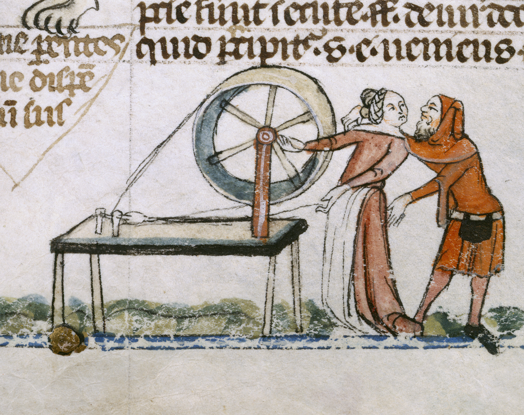 An amorous encounter (Detail) Bas-de-page scene showing man about to embrace a woman at her spinning wheel